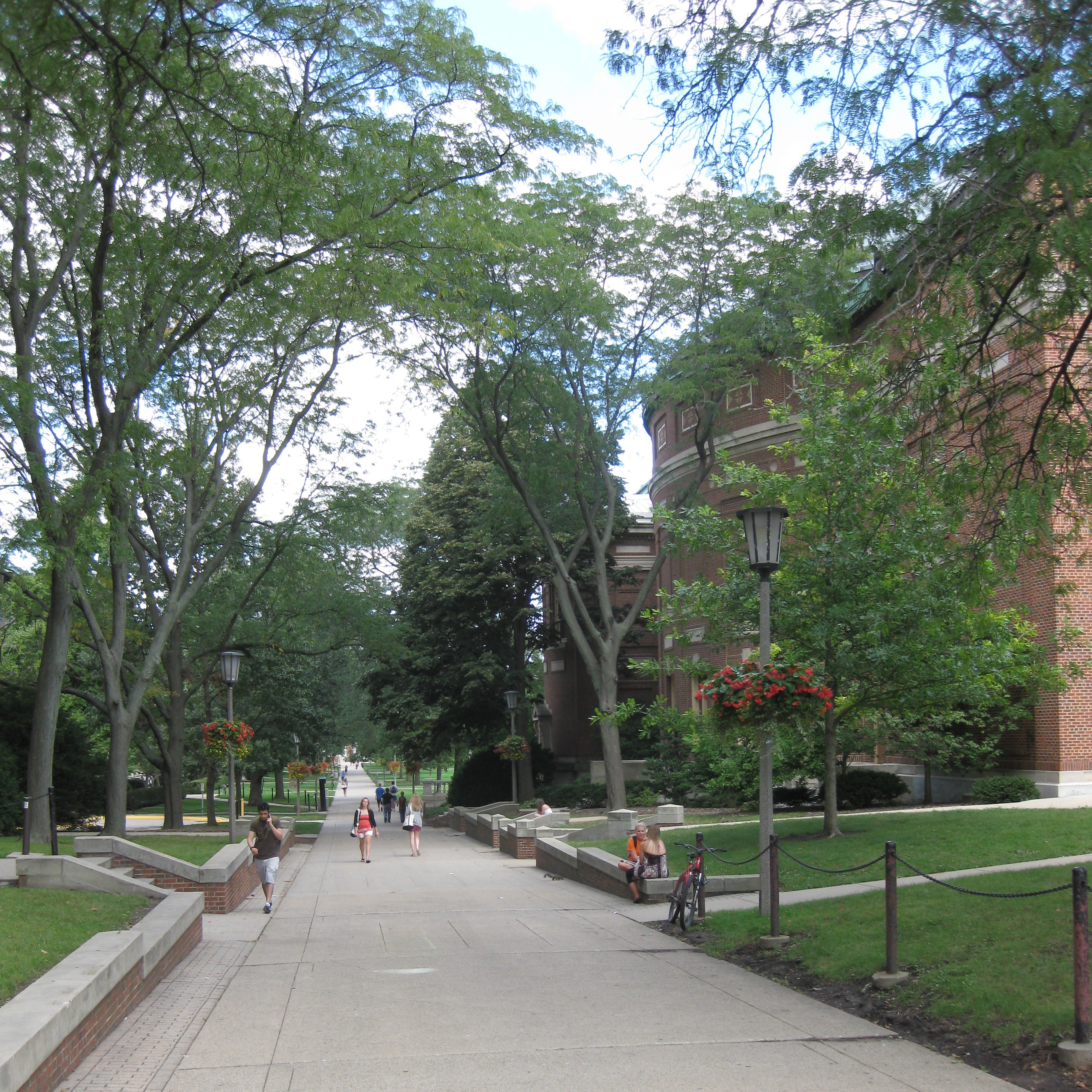 Photograph of the pathway leading to the Main Quad at University of Illinois